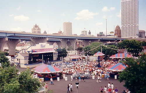 A photograph of the Pabst Showcase at Summerfest in Milwaukee, as it looked circa 1994. Photo taken by me, HollyAm, from the Sky Glider.